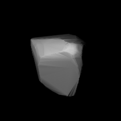 3D convex shape model of 1446 Sillanpää, computed using light curve inversion techniques. J. Hanuš, J. Ďurech, M. Brož, B. D. Warner (June 2011). "A study of asteroid pole-latitude distribution based on an extended set of shape models derived by the lightcurve inversion method". Astronomy and Astrophysics 530: A134. ISSN 0004-6361. arXiv